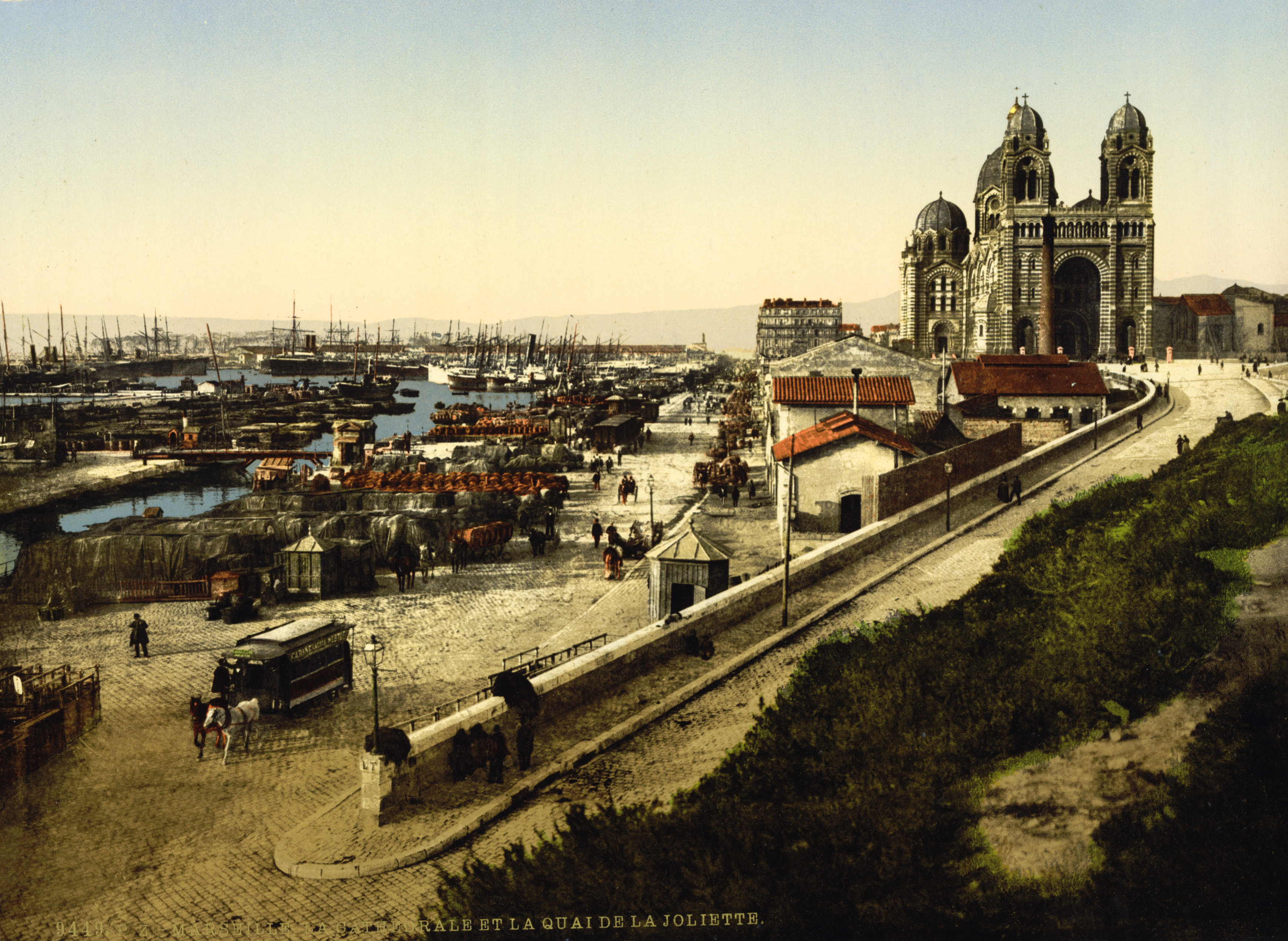 Photochrom print of the Cathédrale de la Major de Marseille and neighboring quay, France